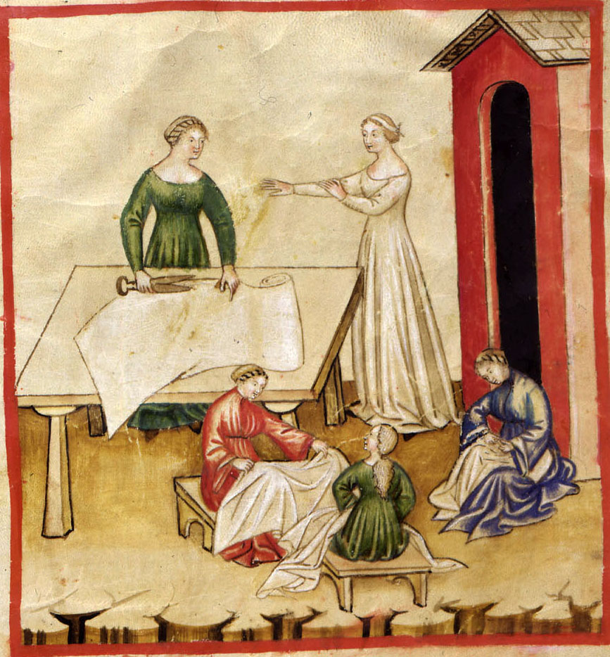 Aspects of daily life: Linen clothing